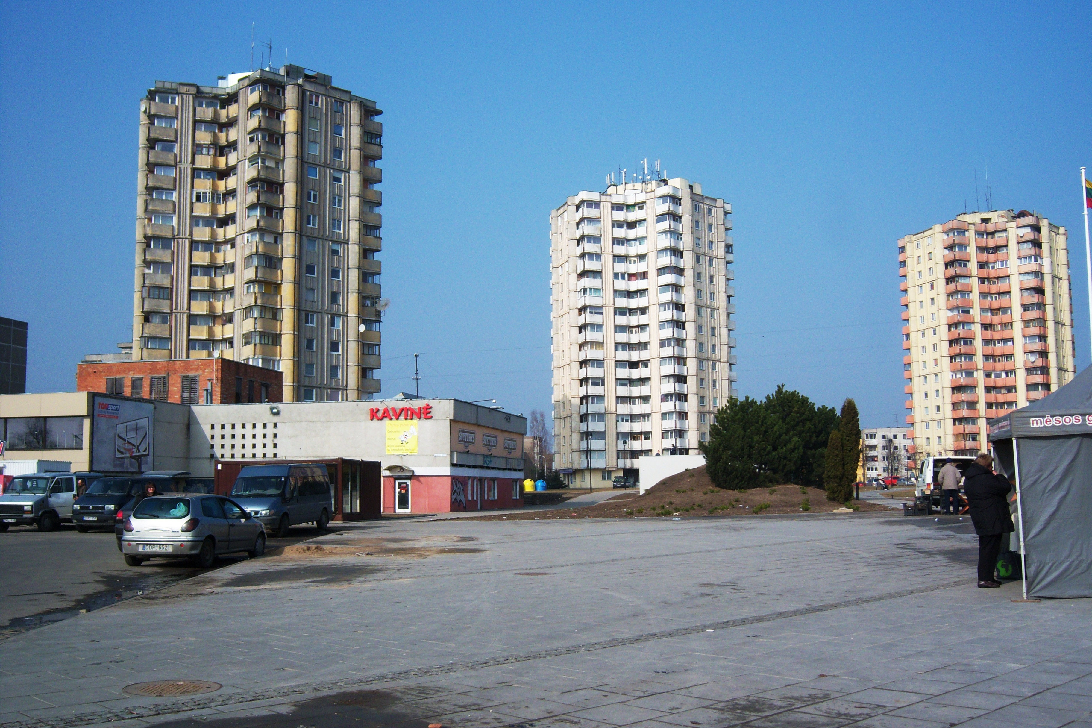 16-storey residential buildings in Kaunas, Chechnyan square. Lithuania